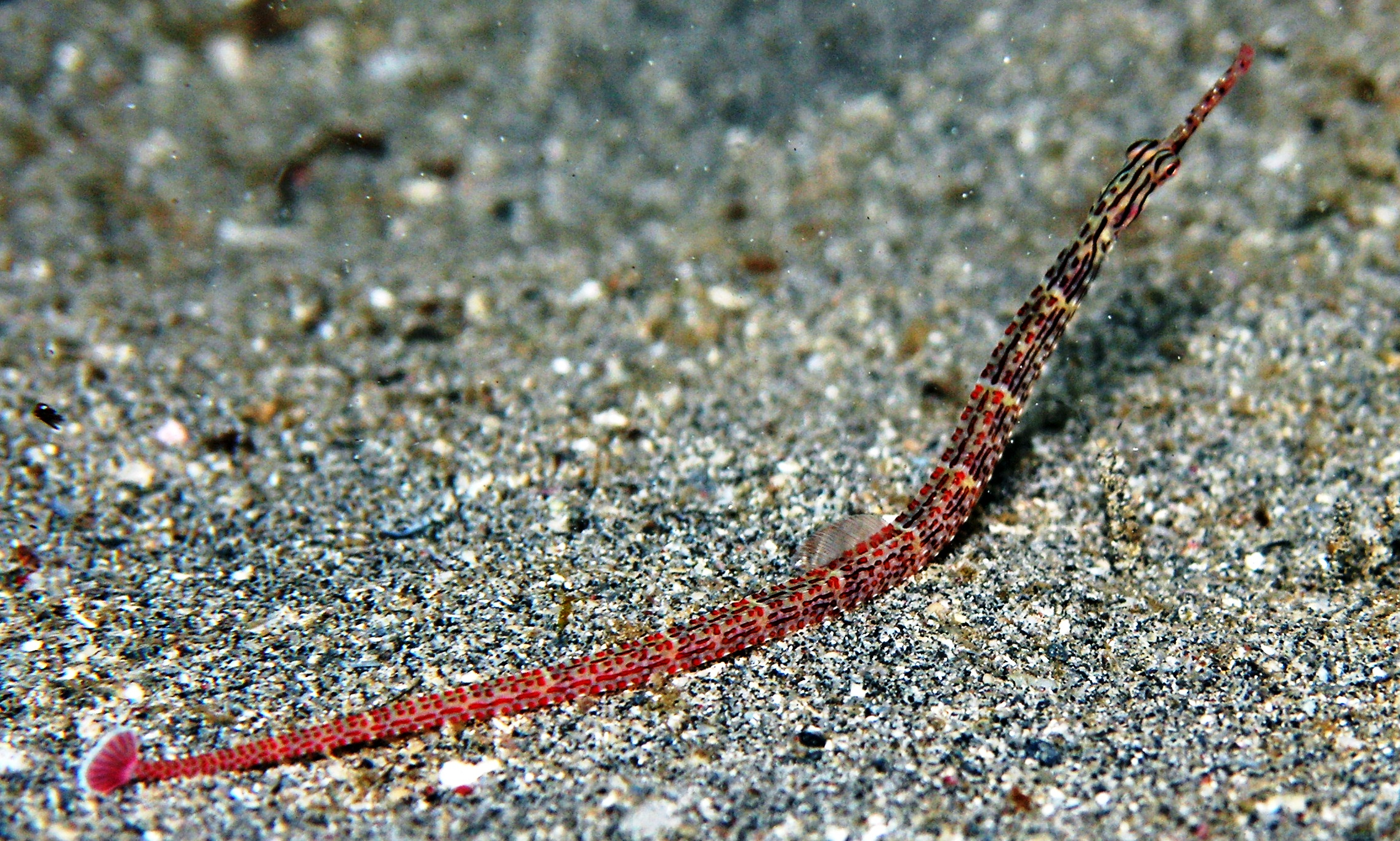 Image of Schultz's Pipefish, Corythoichthys schultzi. Taken at Tasik Ria, North Sulawesi, Indonesia.